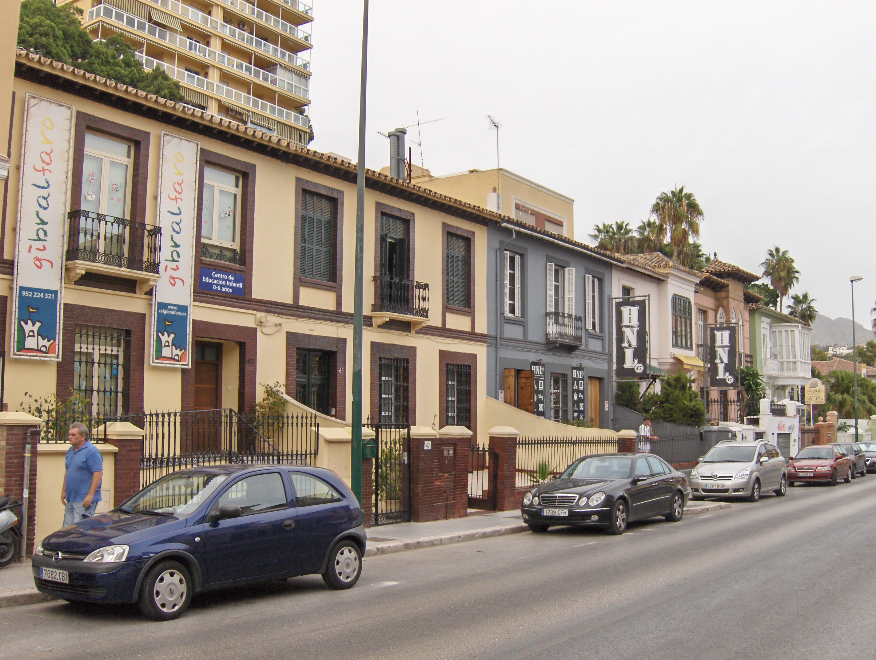 Houses in Paseo de Sancha, Málaga.